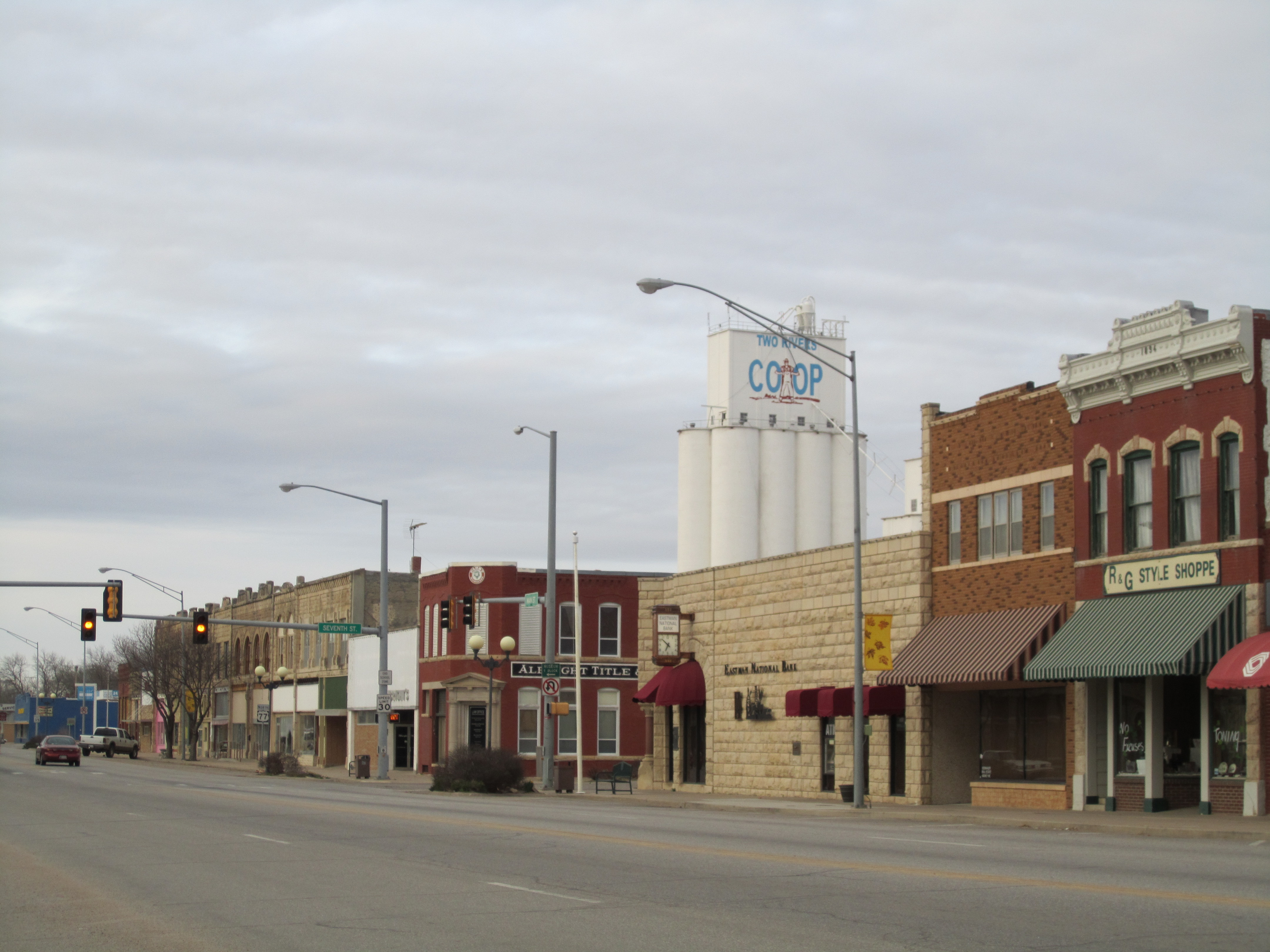 A photo of Main Street, Newkirk, Oklahoma